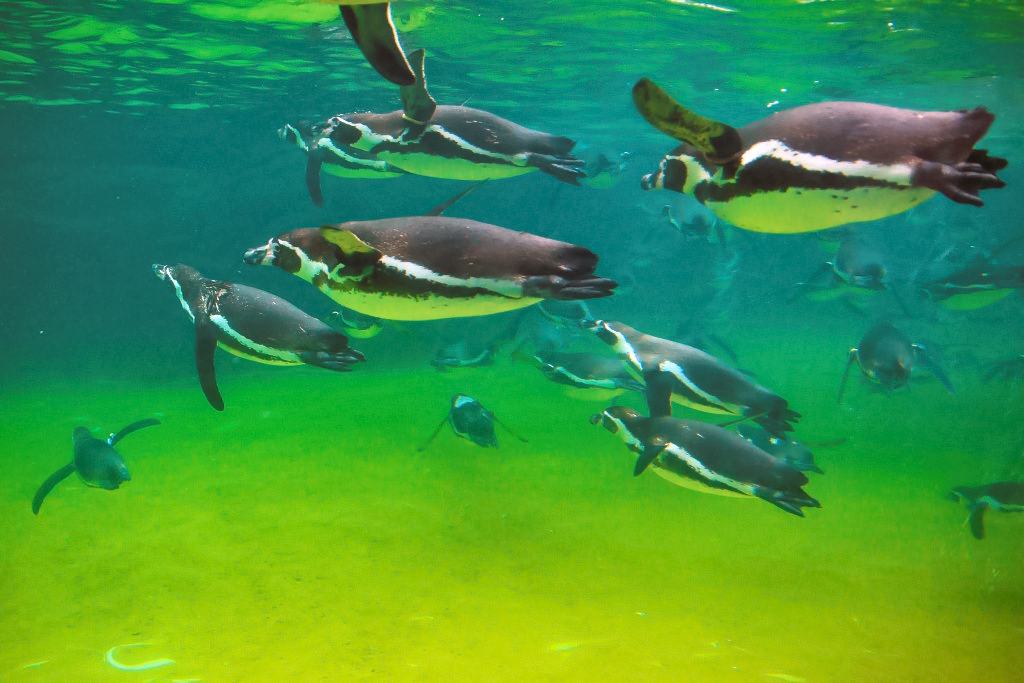 Humboldt Penguins swimming underwater in an aquarium in Japan.